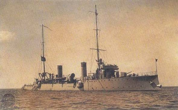 The Ottoman torpedo cruiser Peyk-i Şevket.